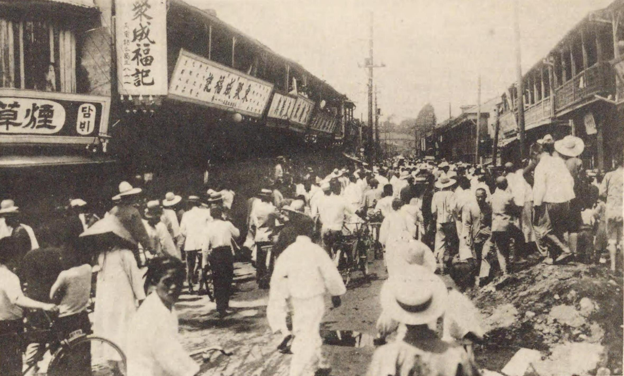 Chinese shops smashed by Koreans in Pyongyang.